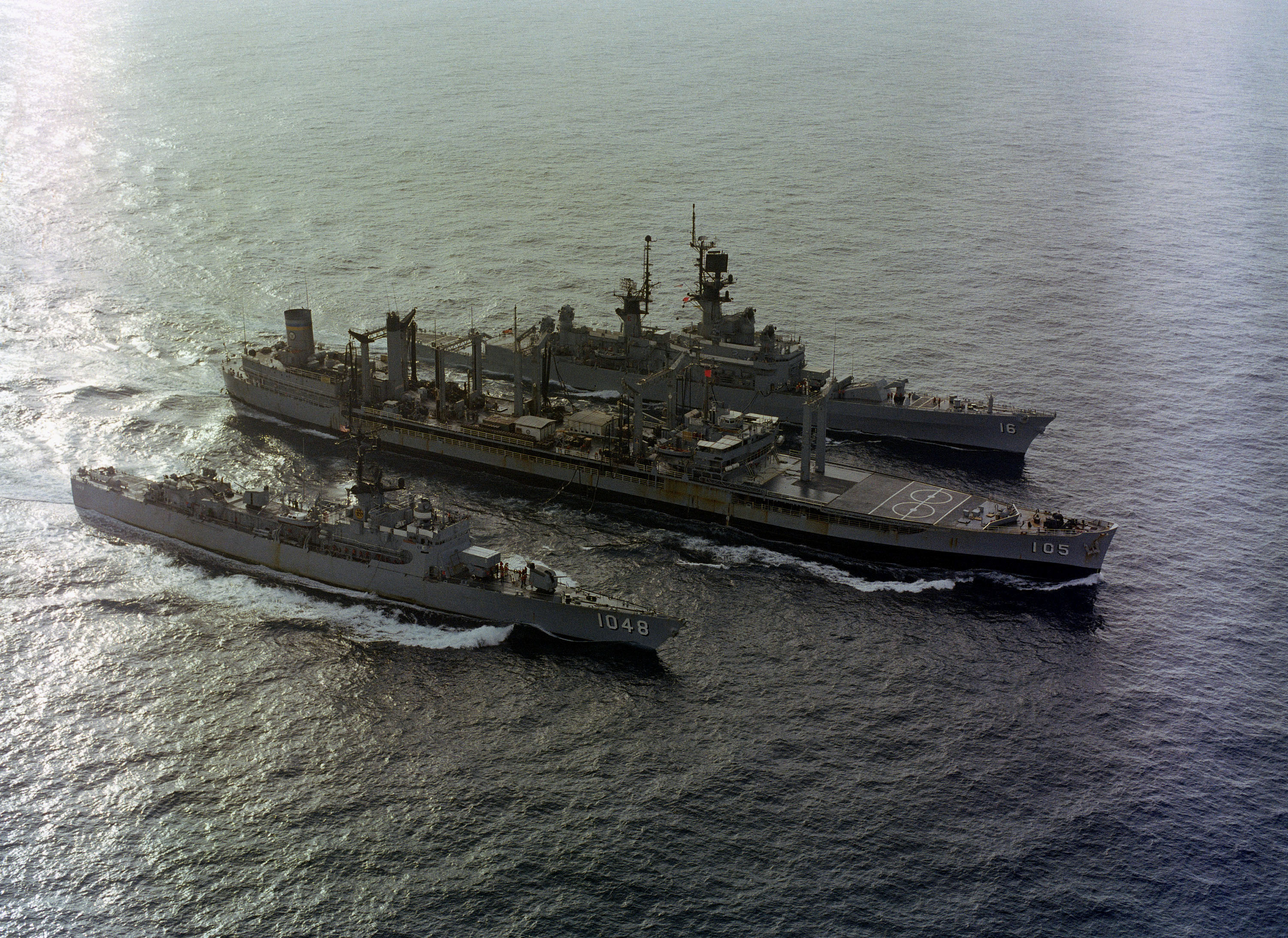 The U.S. Military Sealift Command oiler USNS Mispillion (T-AO-105) refueling the U.S. Navy guided missile cruiser USS Leahy (CG-16) and the frigate USS Sample (FF-1048) in the Pacific Ocean on 1 December 1980.